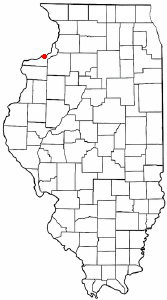 Category:Illinois city locator maps